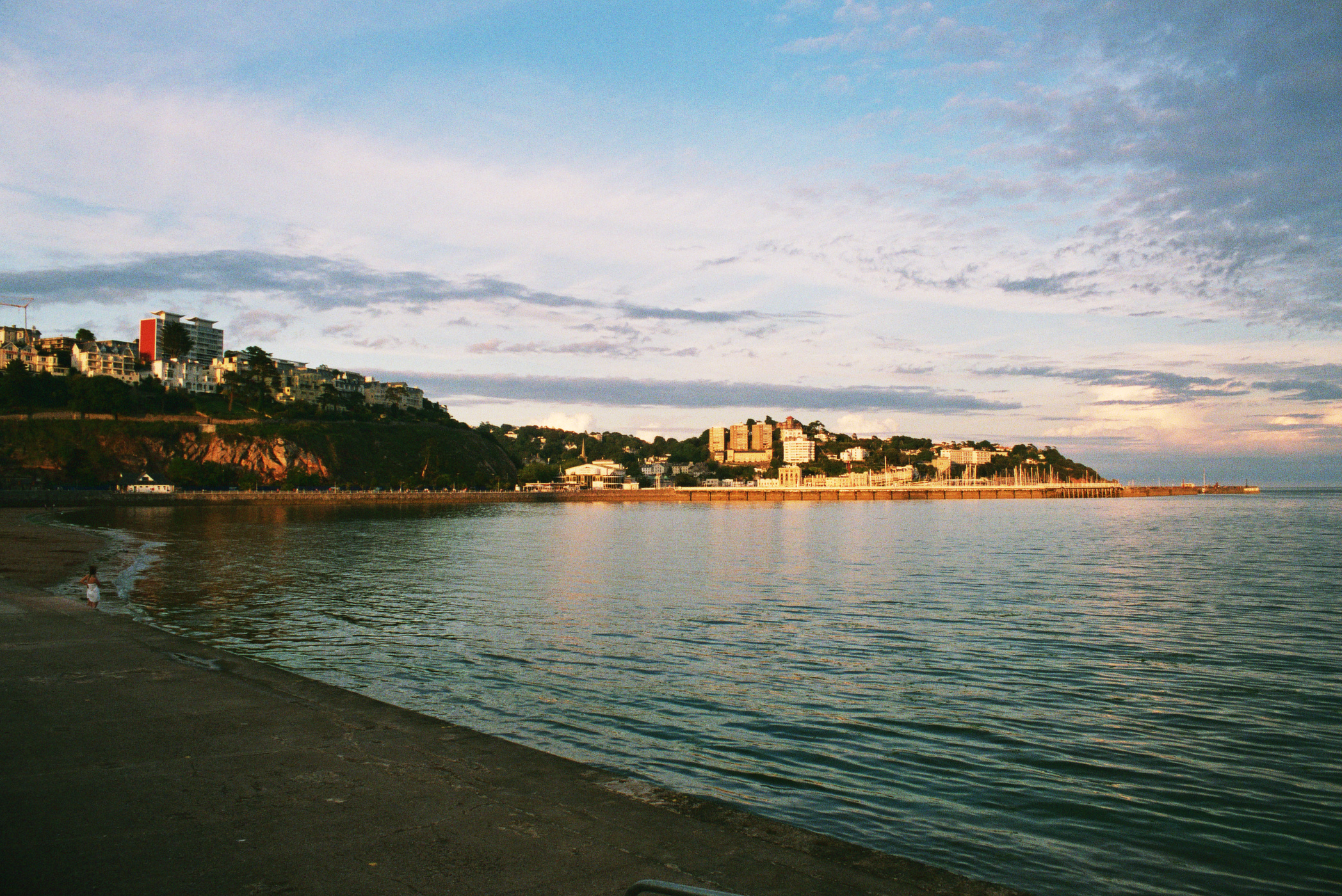 View of Torquay with strand